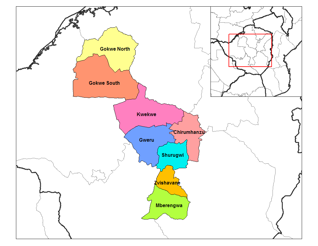 Map of the districts of Midlands province of Zimbabwe. Created by Rarelibra 18:34, 28 September 2006 (UTC) for public domain use, using MapInfo Professional v8.5 and various mapping resources.